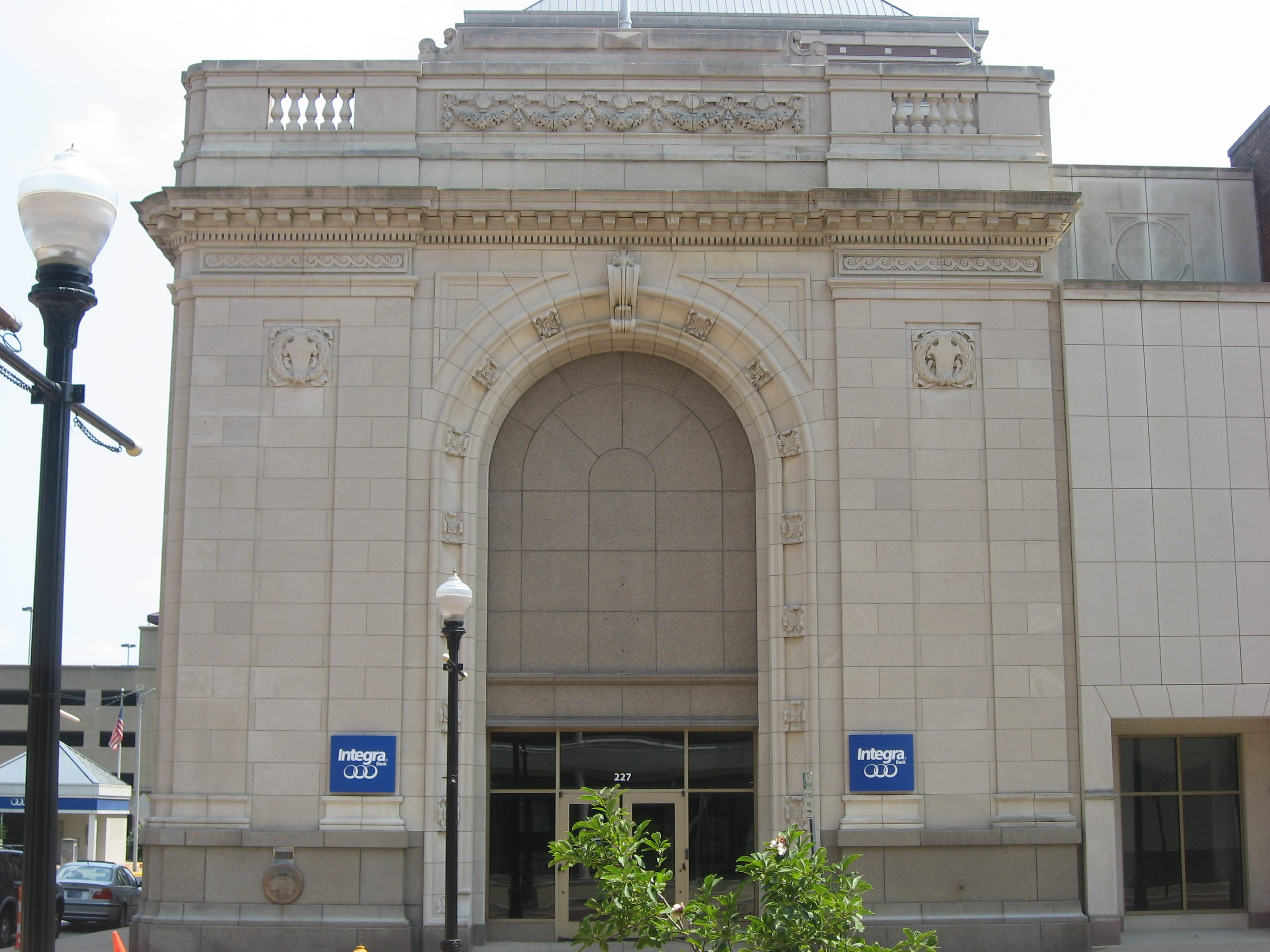 Front of the Integra Bank Building, located at 227 Main Street in Evansville, Indiana, United States. Built in 1913, it is listed on the National Register of Historic Places.